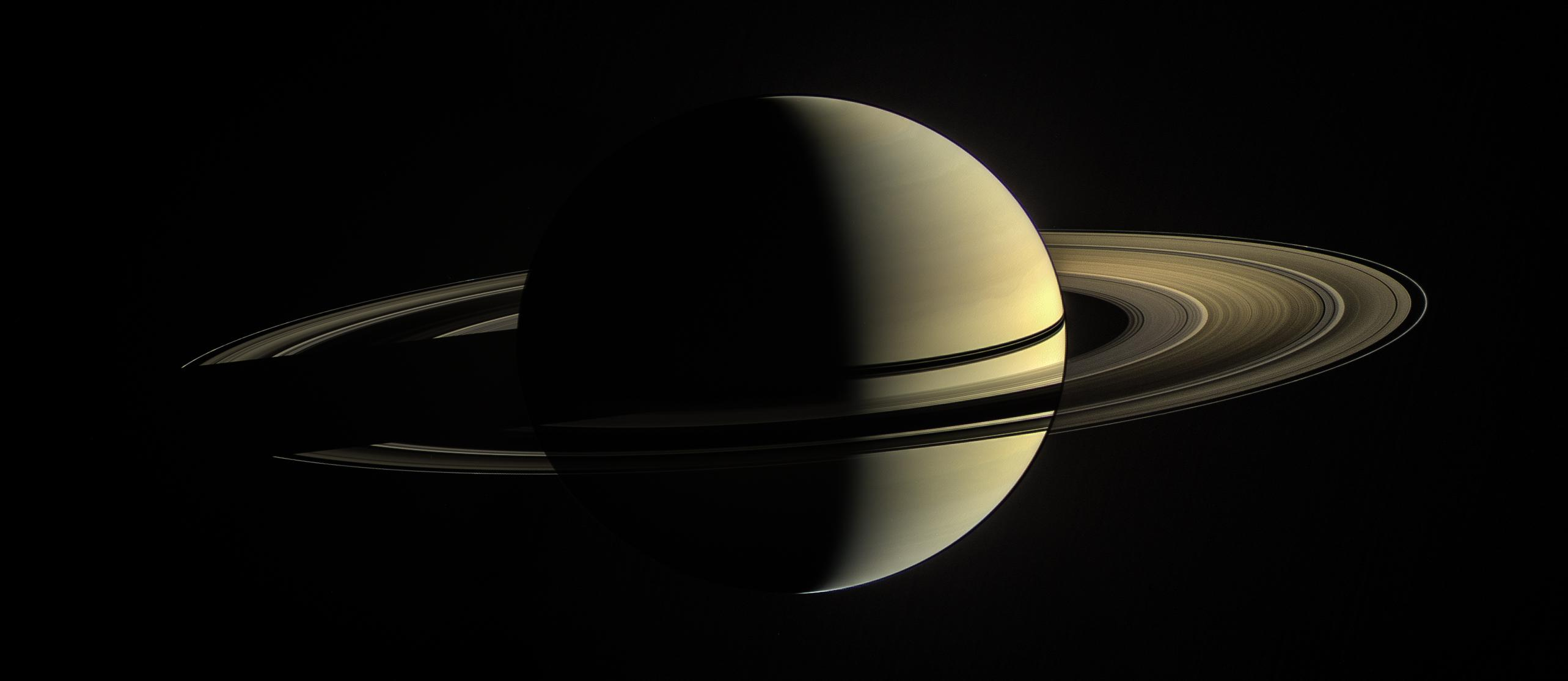 PIA12567: Planet Six This was Cassini's view from orbit around Saturn on Jan. 2, 2010. In this image, the rings on the night side of the planet have been brightened significantly to more clearly reveal their features. On the day side, the rings are illuminated both by direct sunlight, and by light reflected off Saturn's cloud tops. This natural-color view is a composite of images taken in visible light with the Cassini spacecraft's narrow-angle camera at a distance of approximately 1.4 million miles (2.3 million kilometers) from Saturn. The Cassini spacecraft ended its mission on Sept. 15, 2017. The Cassini mission is a cooperative project of NASA, ESA (the European Space Agency) and the Italian Space Agency. The Jet Propulsion Laboratory, a division of the California Institute of Technology in Pasadena, manages the mission for NASA's Science Mission Directorate, Washington. The Cassini orbiter and its two onboard cameras were designed, developed and assembled at JPL. The imaging operations center is based at the Space Science Institute in Boulder, Colorado. For more information about the Cassini-Huygens mission visit and The Cassini imaging team homepage is at